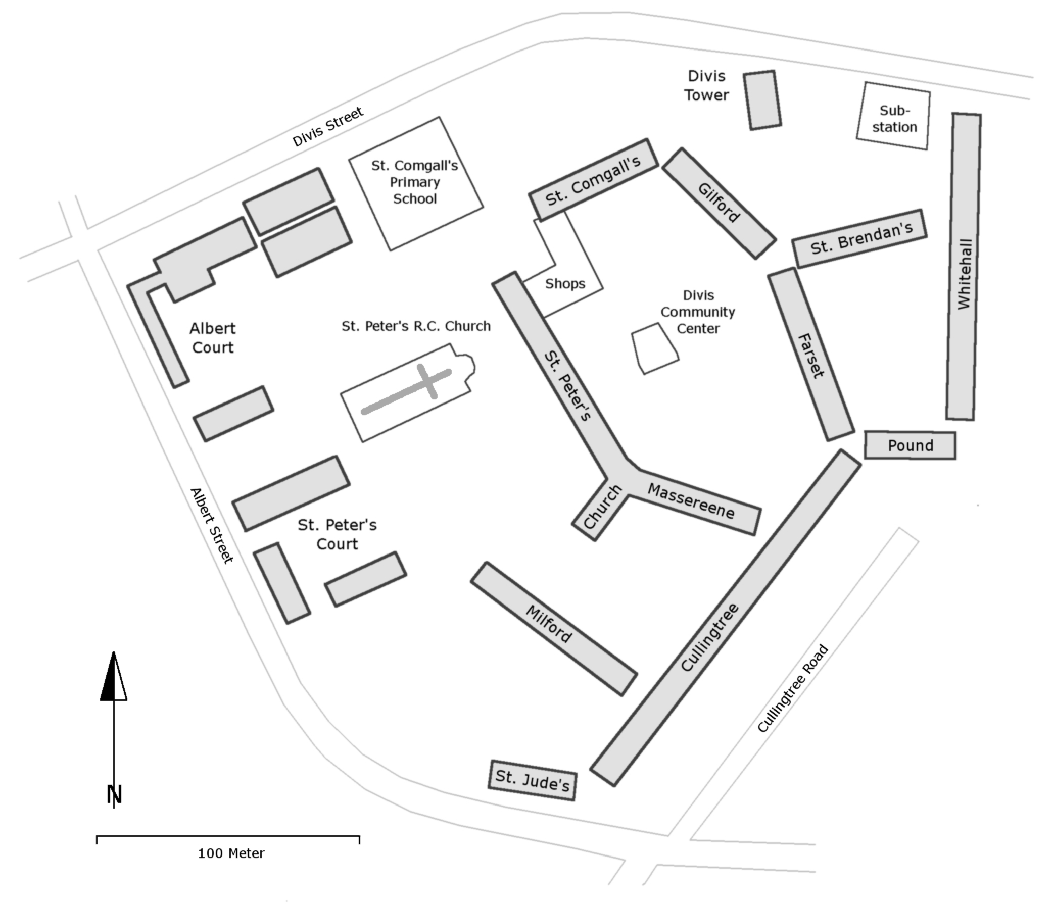 Map of the Divis Flats in Belfast, Northern Ireland.